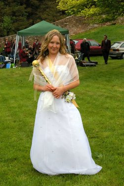 Melmerby May Queen on Village Green.